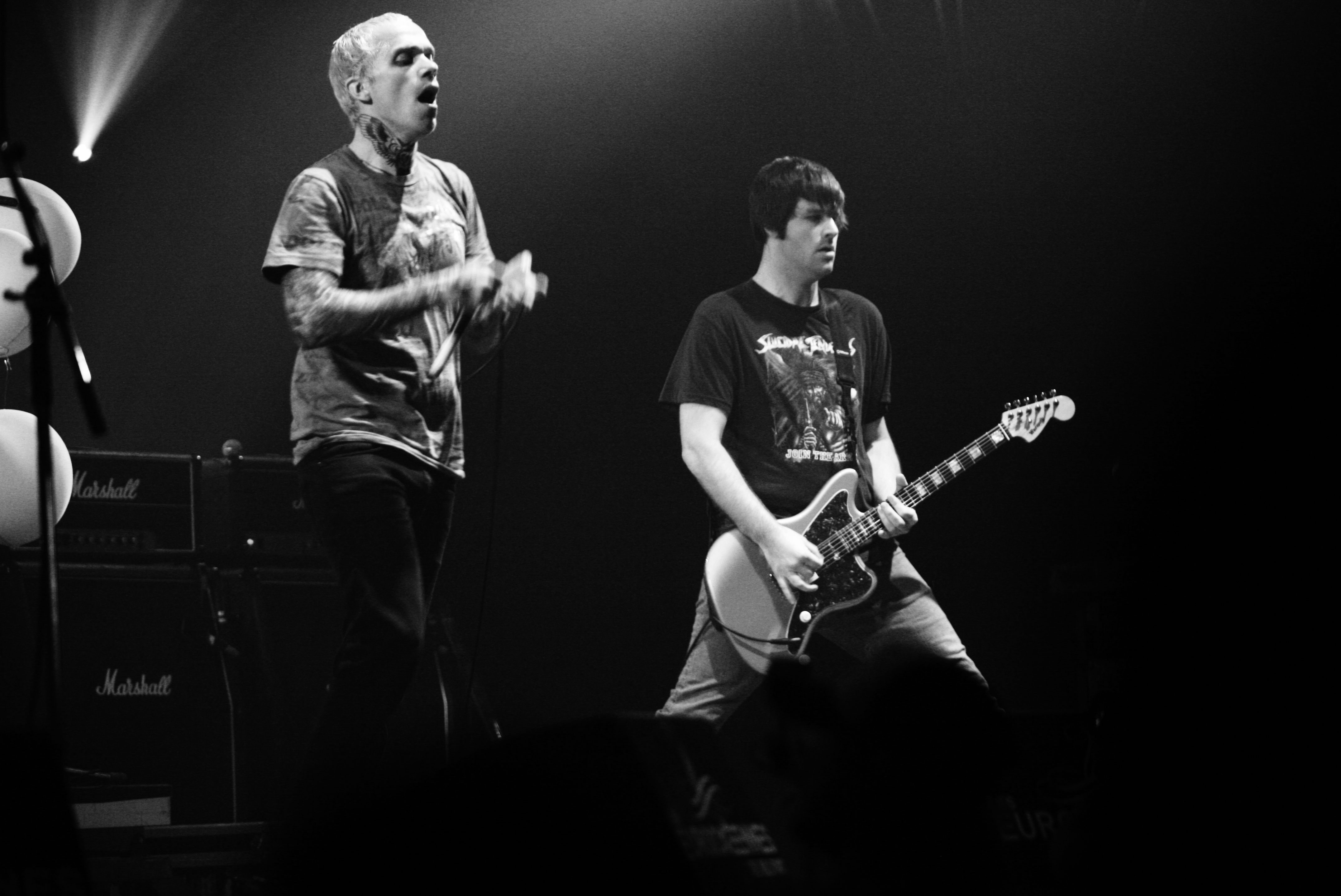 Converge at the Eurockéennes of 2007